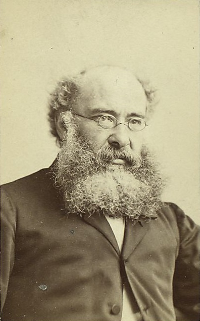 Picture of Anthony Trollope (1815-1882)